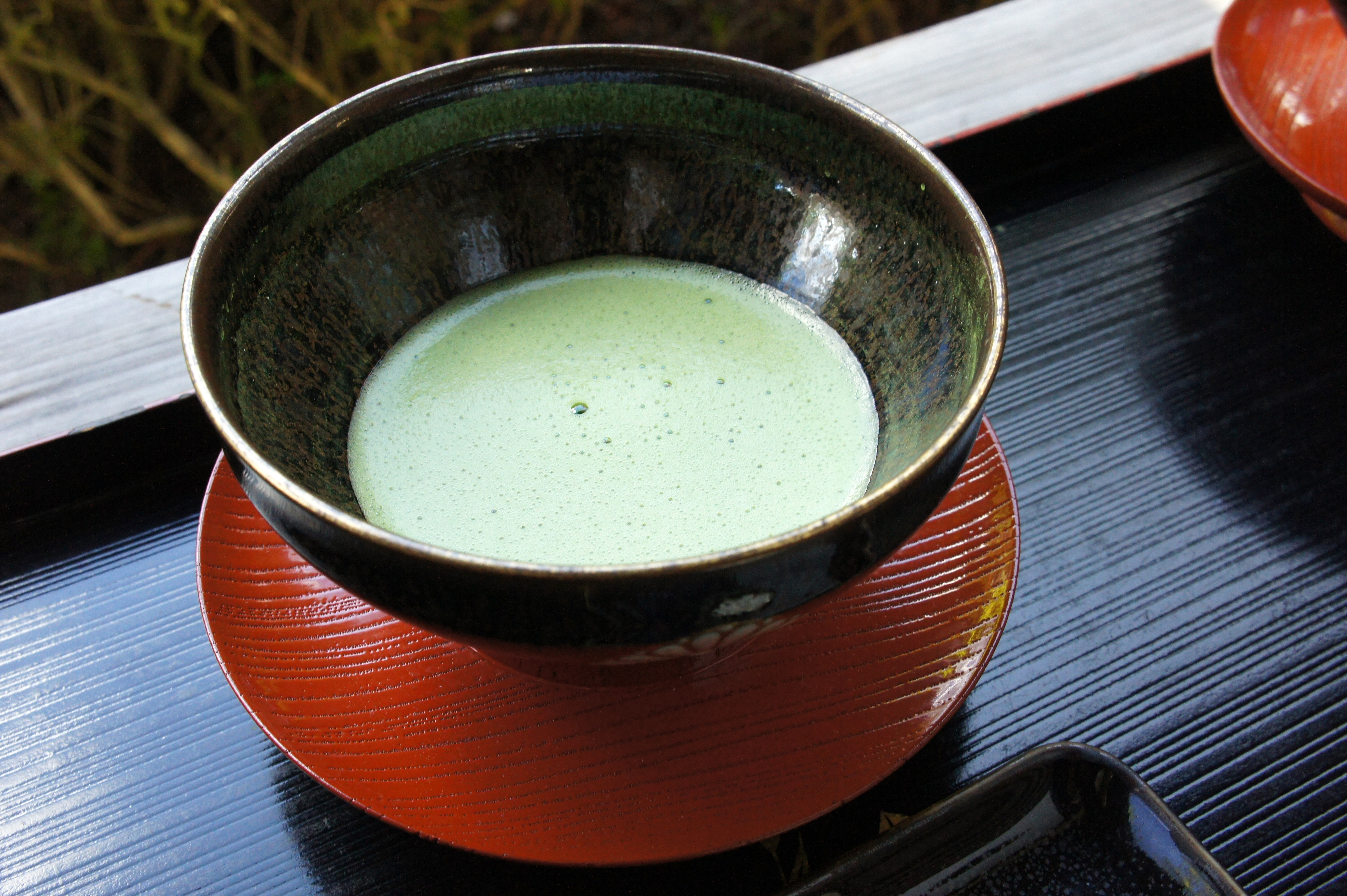 Unryu-in in Higashiyama-ku, Kyoto, Kyoto prefecture, Japan